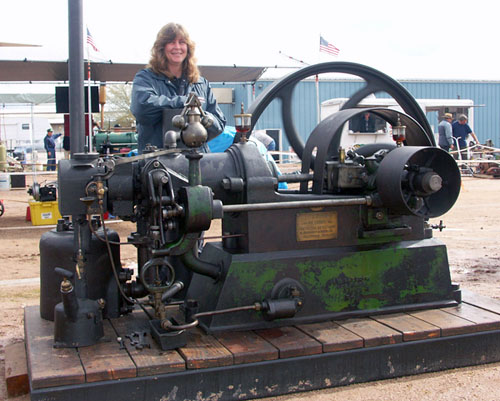 Richard Hornsby Vaporizing Oil Engine